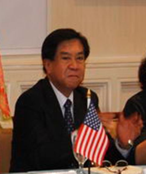 House Speaker Prospero Nograles